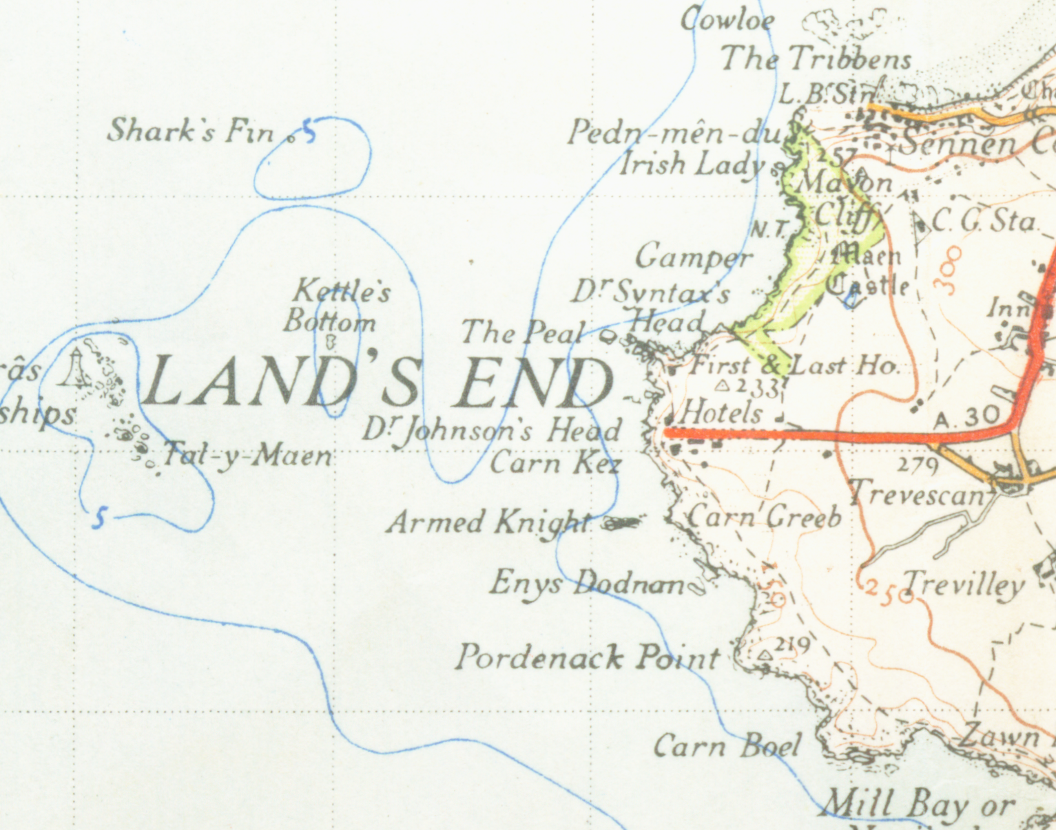 Map of lands end from 1946. Scale 1 inch to the mile 600DPI Sheet 189